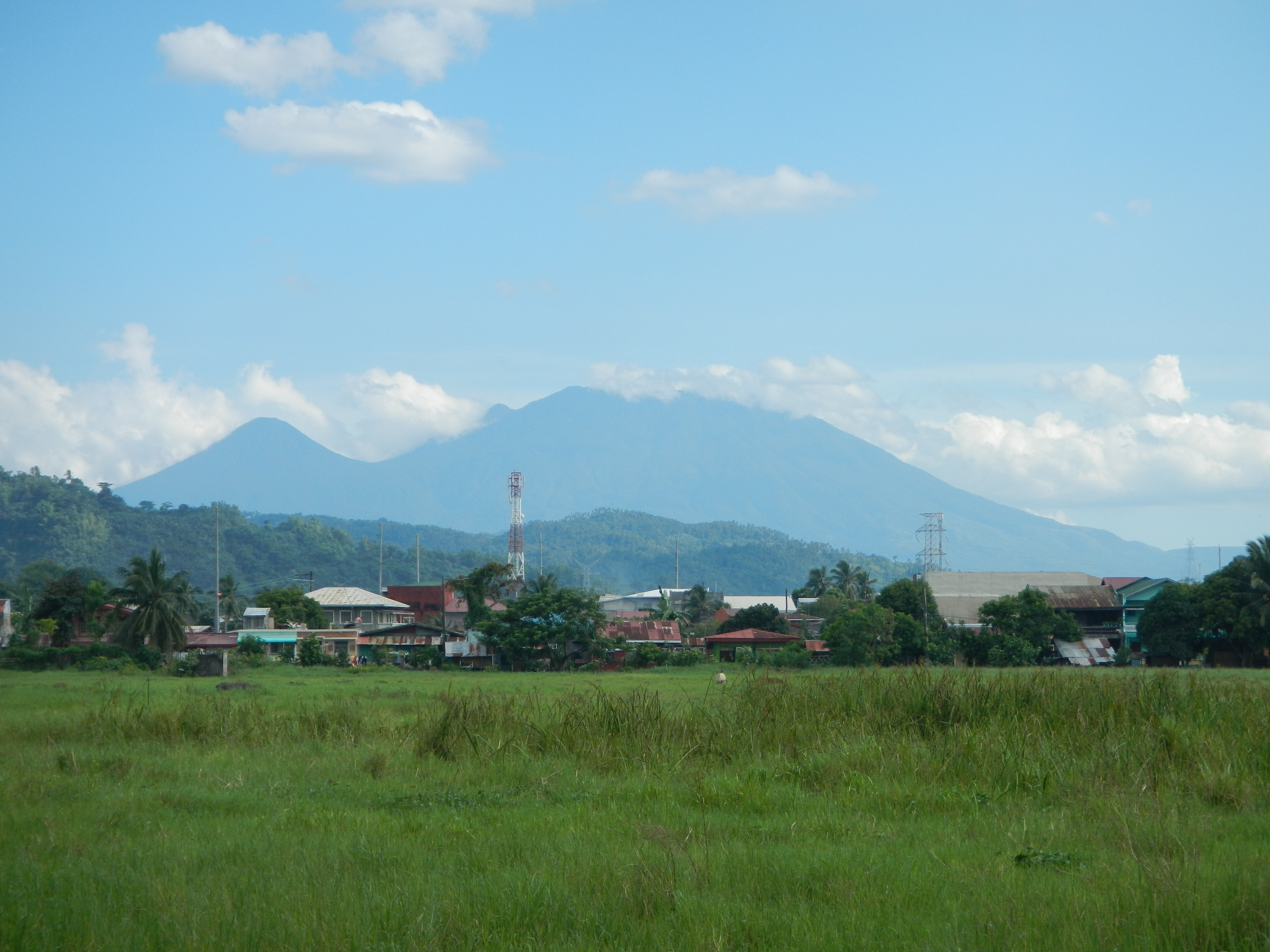 UploadWizard photos --- (general description) of (landmarks, heritage, culture, comprehensive, photography) of --- the ----Sto Niño Elementary School (Lumban proper) [1] Coordinates: 14°17'51"N 121°27'35"E and scenery around the Lumban public market -- Lumban, Laguna[2] , including the Church and Plaza.